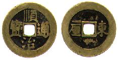 "In 1635 orders were given to improve the coinage, and to add the legend Yi Li, one Li, i.e. a thousand part of a tael or an ounce, indicating the value in silver. On the right side is the name of the mint" [S] YiLi. The Yi was placed above the Li. 26 mm Obv.: Shun Chih T'ung Pao Rev.: Right: Yi Li Left: Tung - Shantung mint Rarity: Ref.: [S] No. 1395 Dynasty: Ch'ing (1644 - 1911 a.d.) Emperor: Shih Tsu (1644-1661 a.d.) Reign Title: Shun Chih (1661-1722 a.d.)